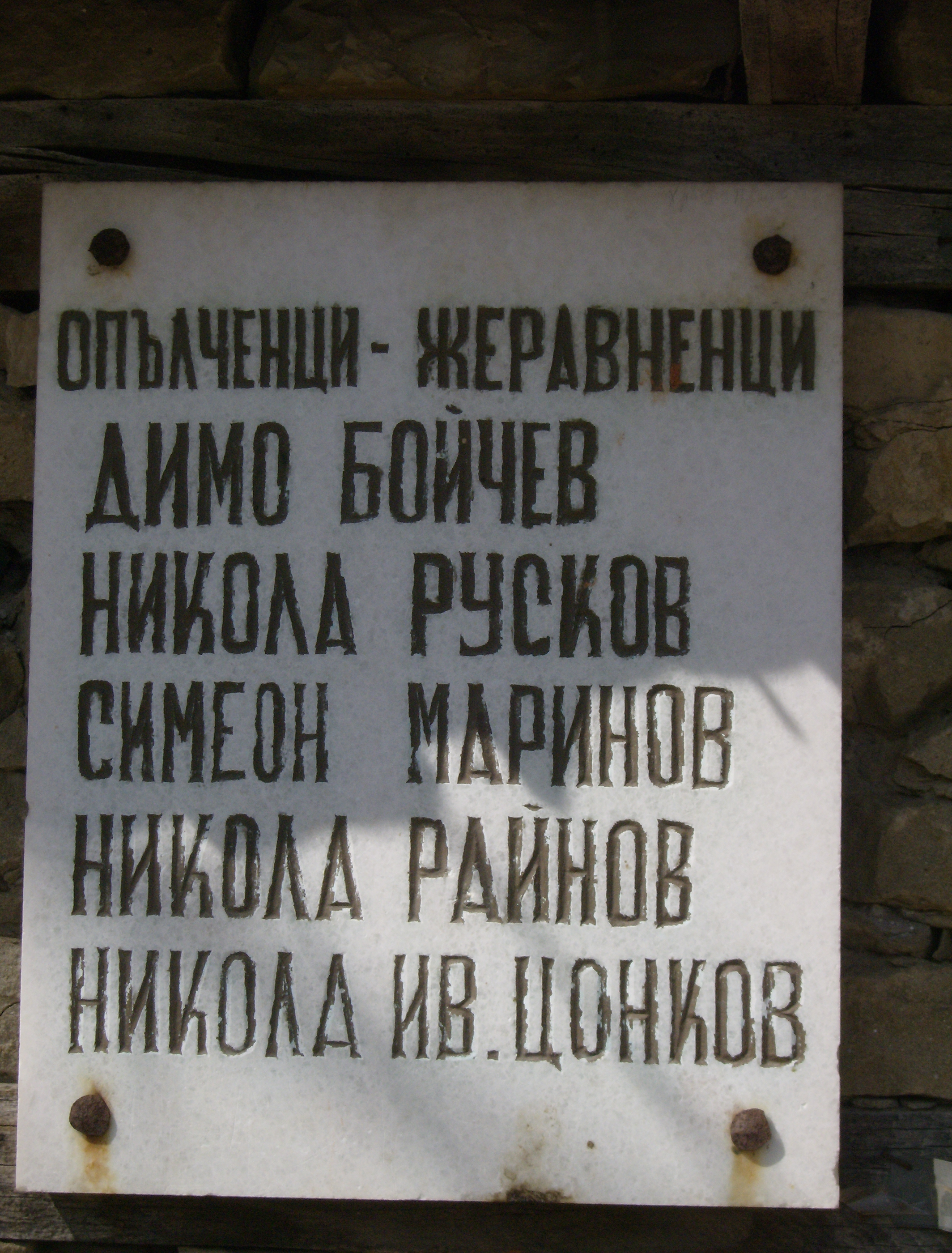 Zheravna